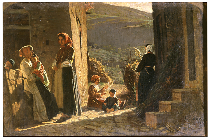 Peasant Meeting